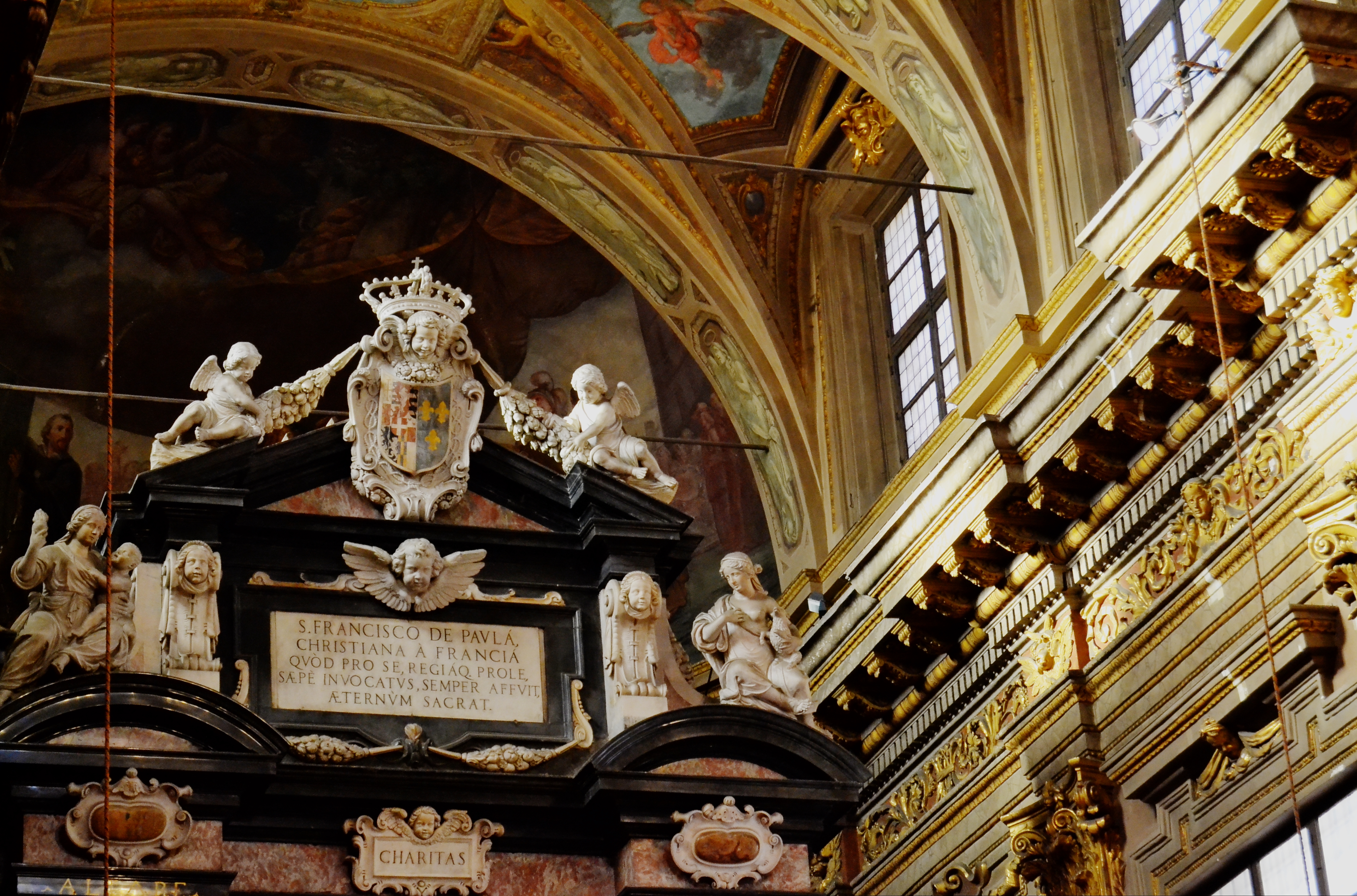 detail of the main altar in the church site of St. Francis of Paola in turin